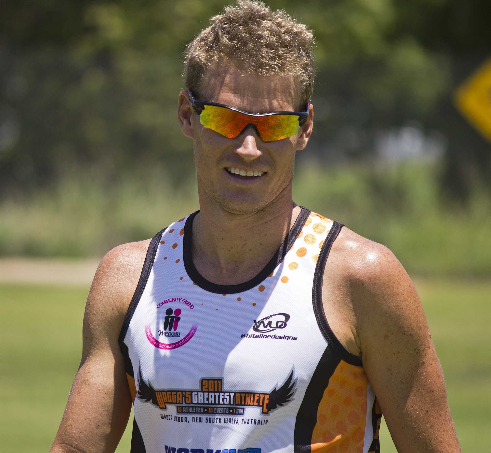 Brad Kahlefeldt after the High Ball Challenge at the 2011 Wagga's Greatest Athlete held at Bolton Park in Wagga Wagga, New South Wales.